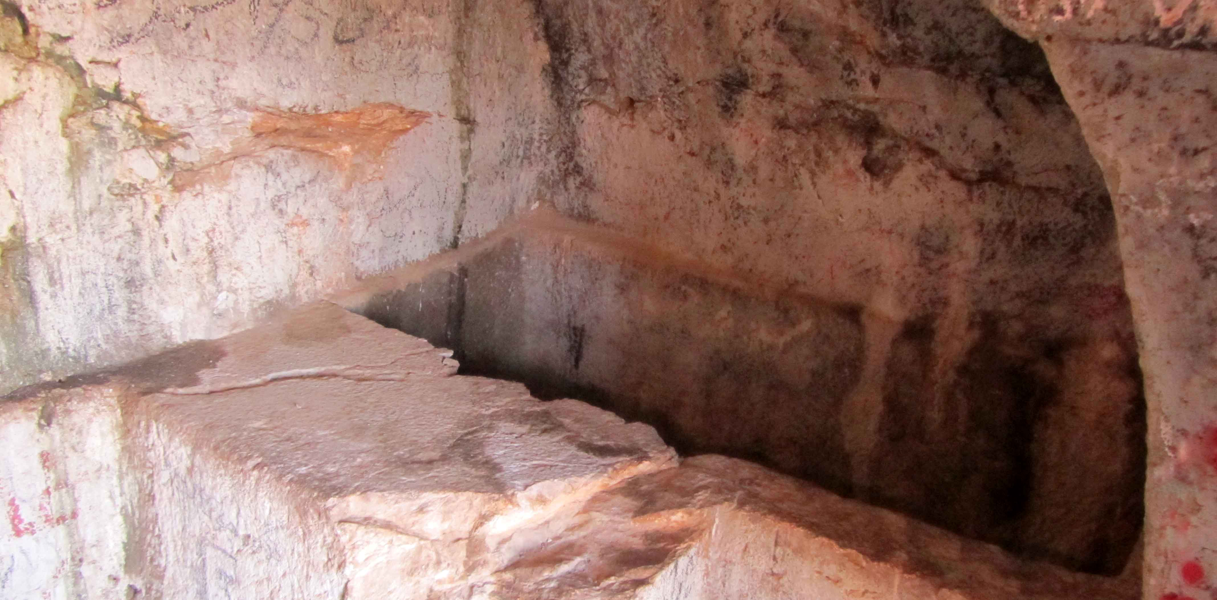 Catacombs in Persia (Gurdakhmeh Darband / Sahneh). The catacombs is located in Kermanshah province. Photo by Hamidreza Sorouri / Persian Dutch Network (2016)